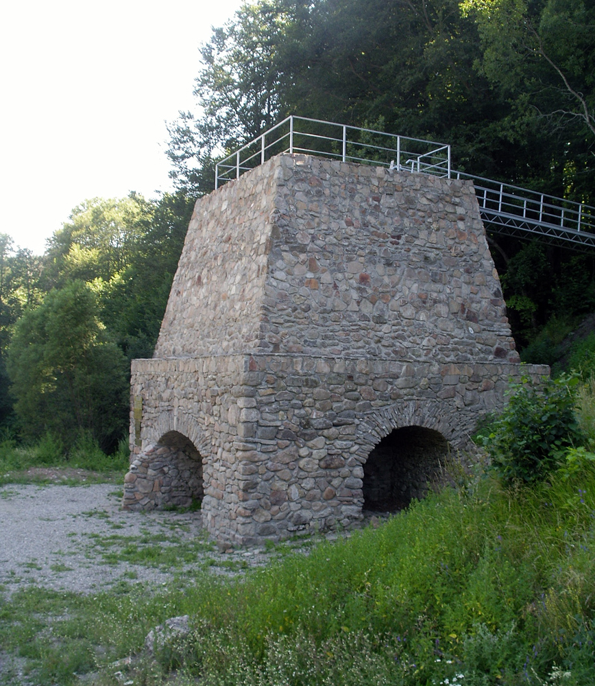 The furnace in the former settlement Bodvaj (today in Romania).